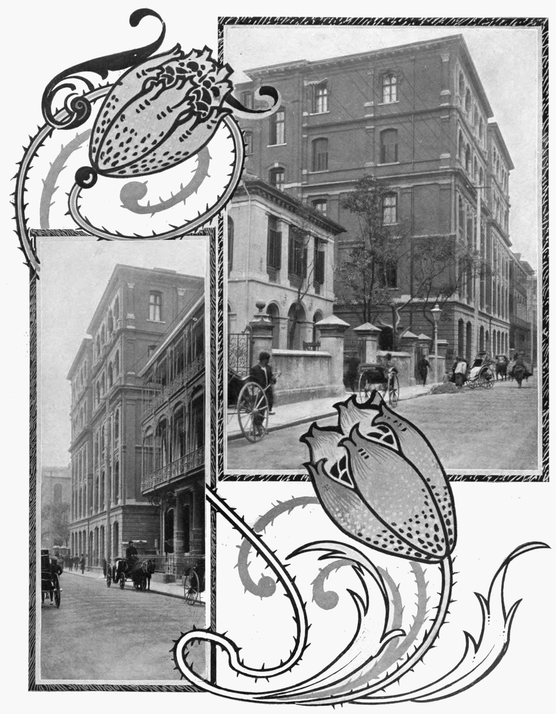 a r burkill & sons